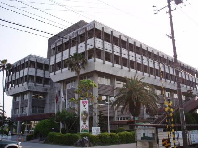 City hall of Nankoku, Kochi, Japan.